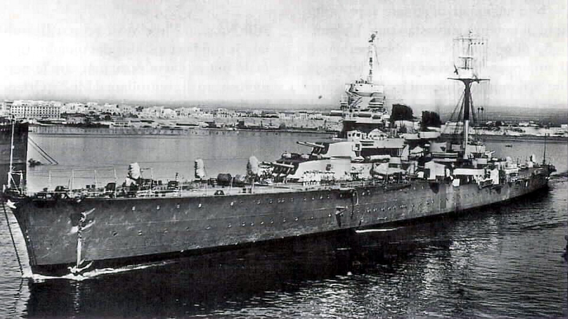 Italian cruiser Duca degli Abruzzi (1944)